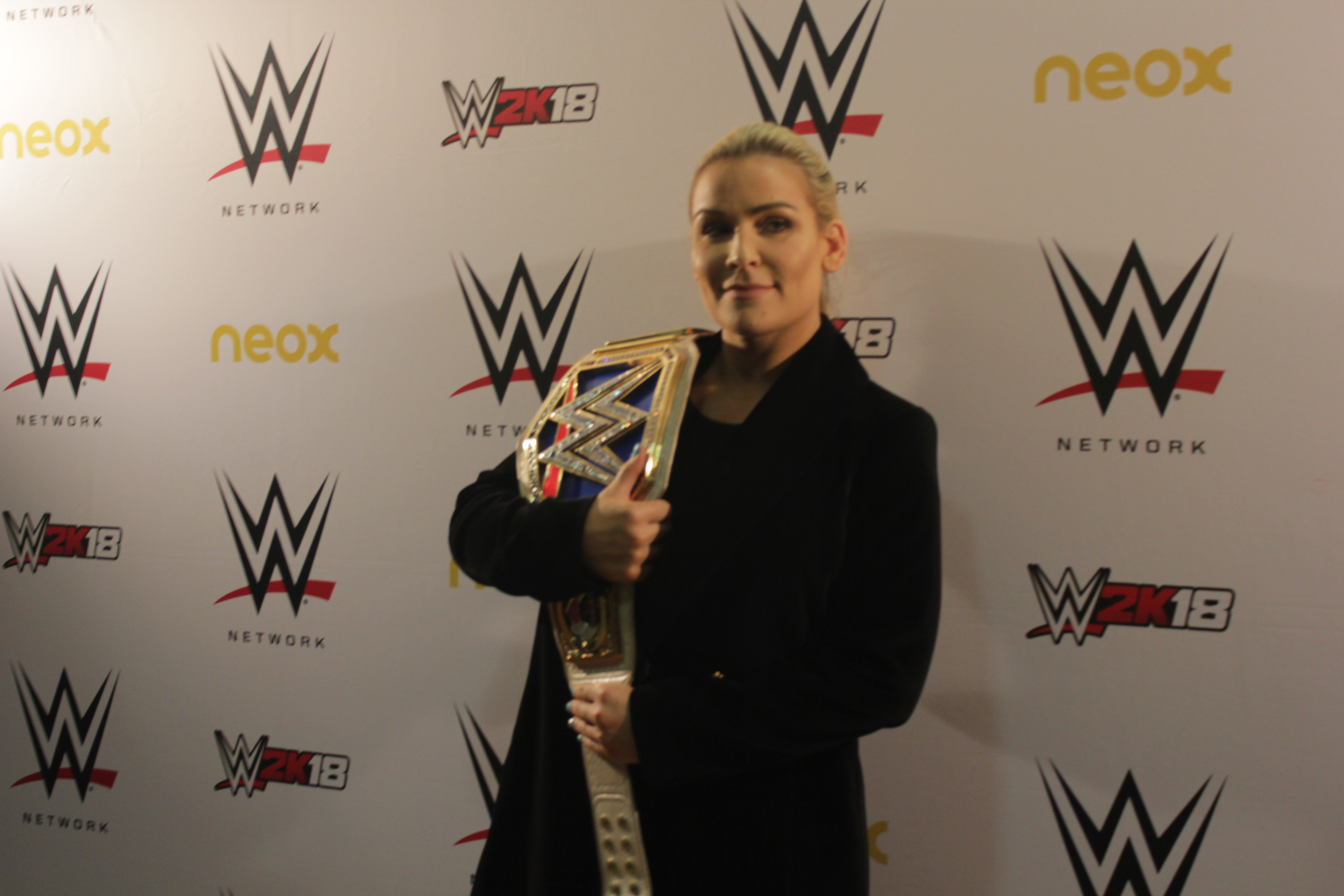 Natalya as the SD Womens Champion during a press conference